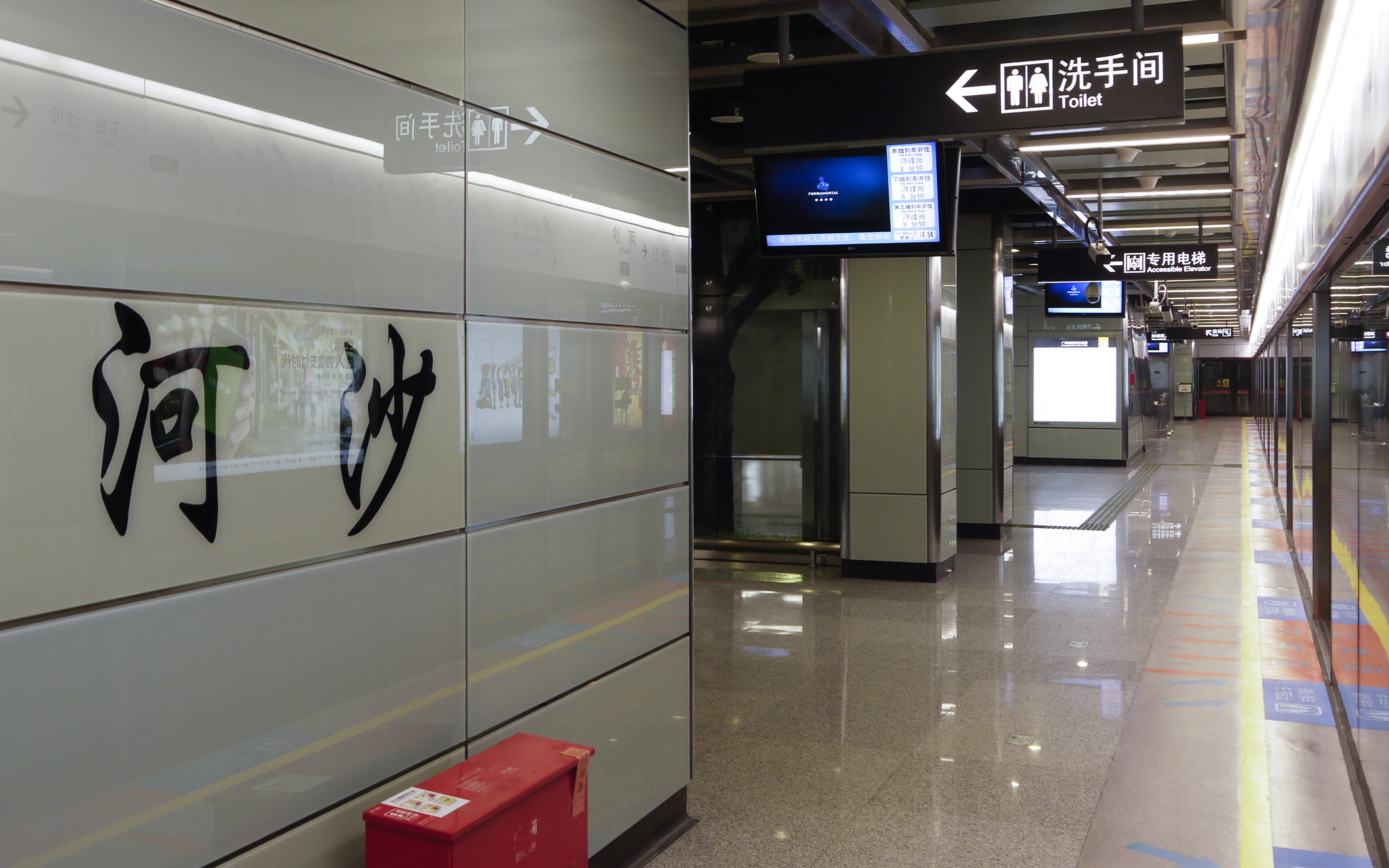 HE SHA STA.